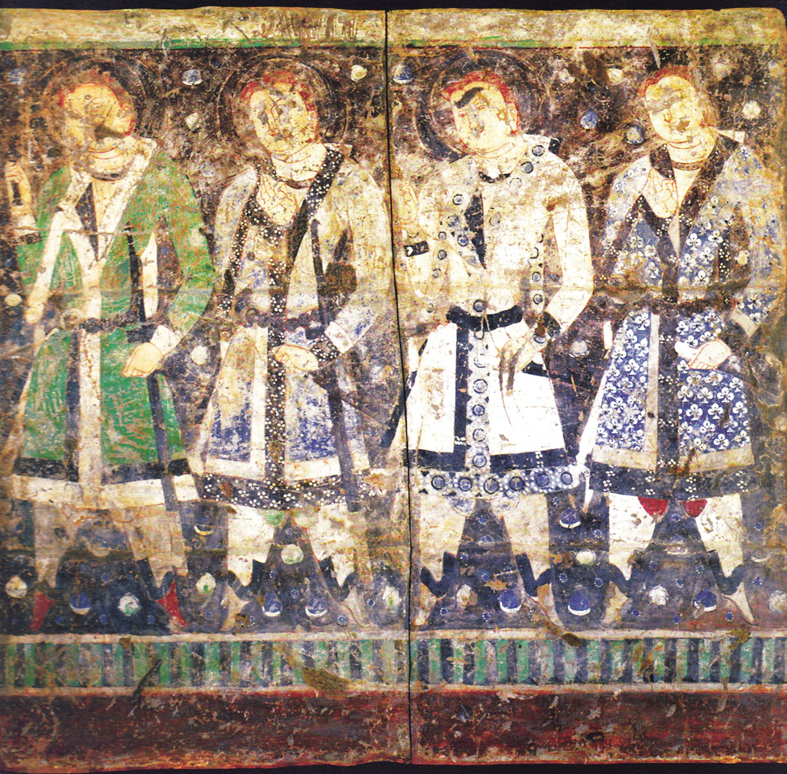 Mural in Kizil cave 8, donor figures, 14C date: 432-538 AD, Museum für Asiatische Kunst, Berlin